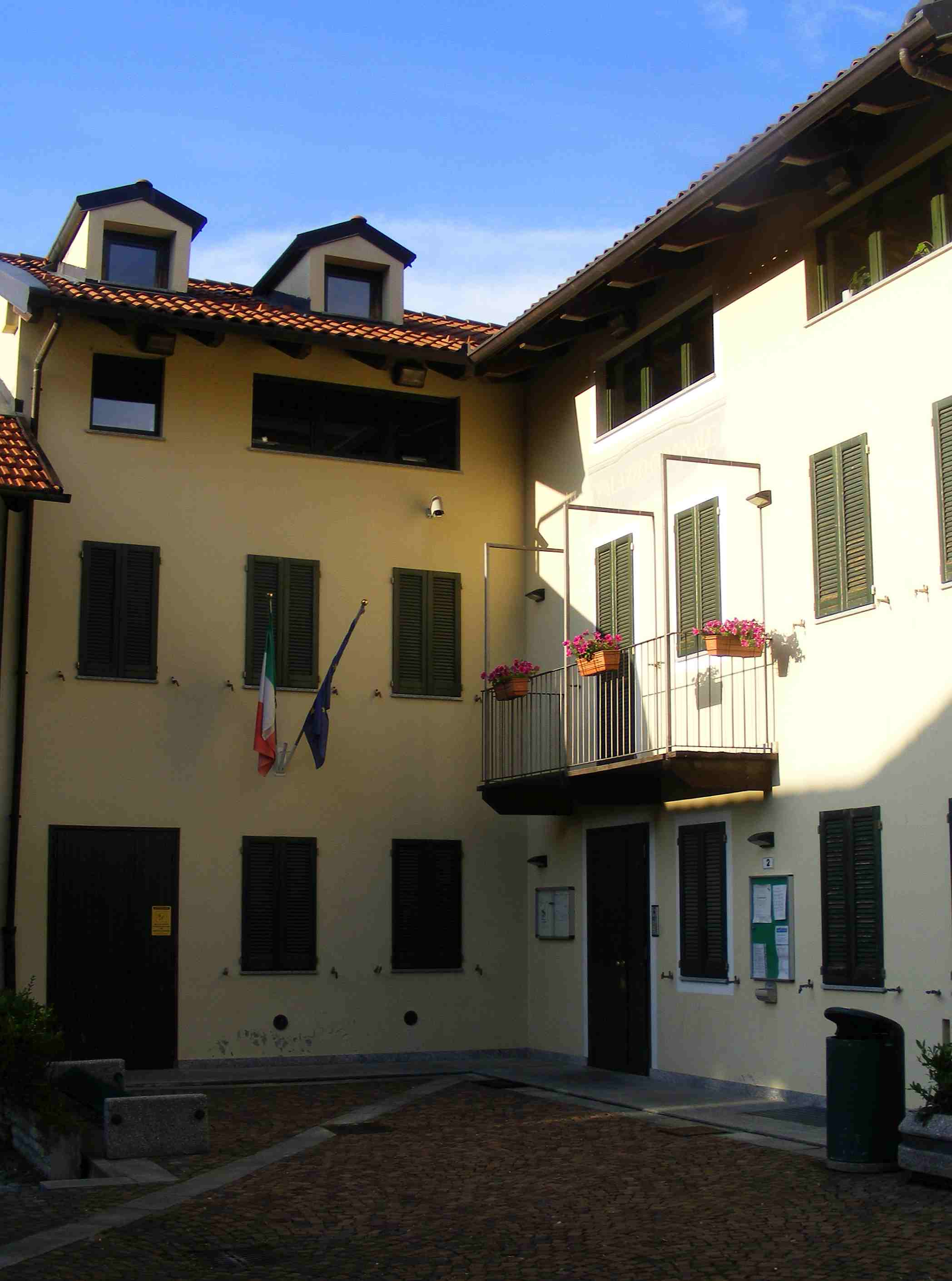 Vauda Canavese (TO, Italy): town hall